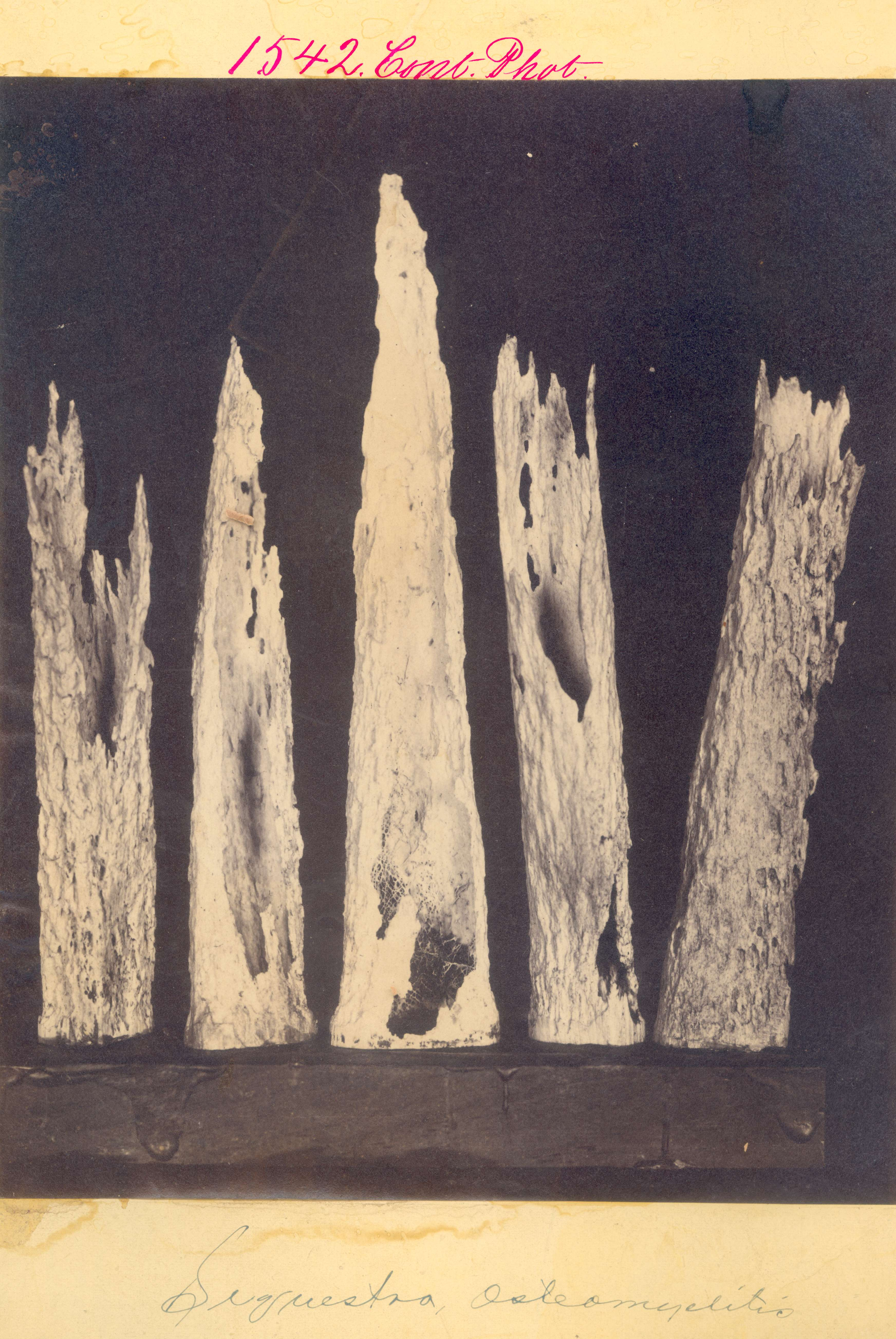 Contributed Photograph # 1542 Title : SEQUESTRA OSTEOMYELITIS. Contributor T & N, DOUGLAS HOSPITAL ; CDV ON BACK OF MOUNT. ref:cp1542